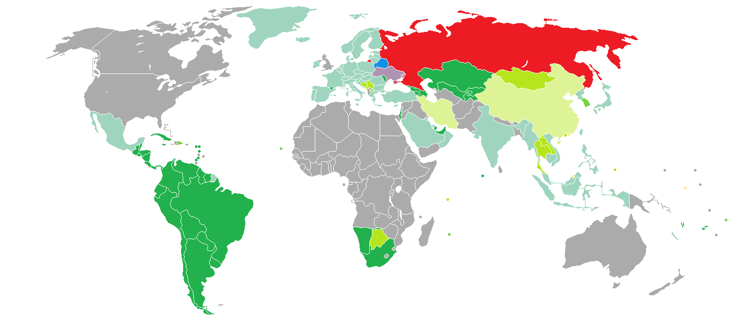 Russia visa policy Russia including Crimea Freedom of movement Visa waiver countries and territories Visa required for entry to Russia